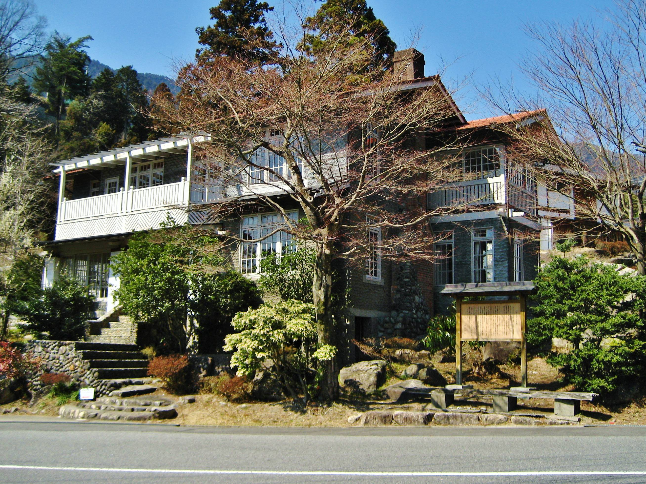 Fukuzawa Momosuke Memorial.